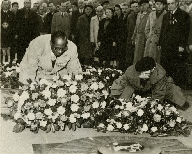 Eugene Bullard, the first African-American military pilot, at the Tomb of the Unknown Soldier in Paris (1954). He was invited by the Committee of the Flame to rekindle the fire in 1954. According to the website The Unknown Soldier At The Base Of The Arc De Triomphe: "At the base of the Arch de Triomphe stands a torch. Every evening at 6:30 P.M. it is rekindled, and veterans lay wreaths decorated with red, white and blue near its flickering flame. It burns in the darkness to recall the sacrifice of an unknown French soldier who gave his life during World War I."